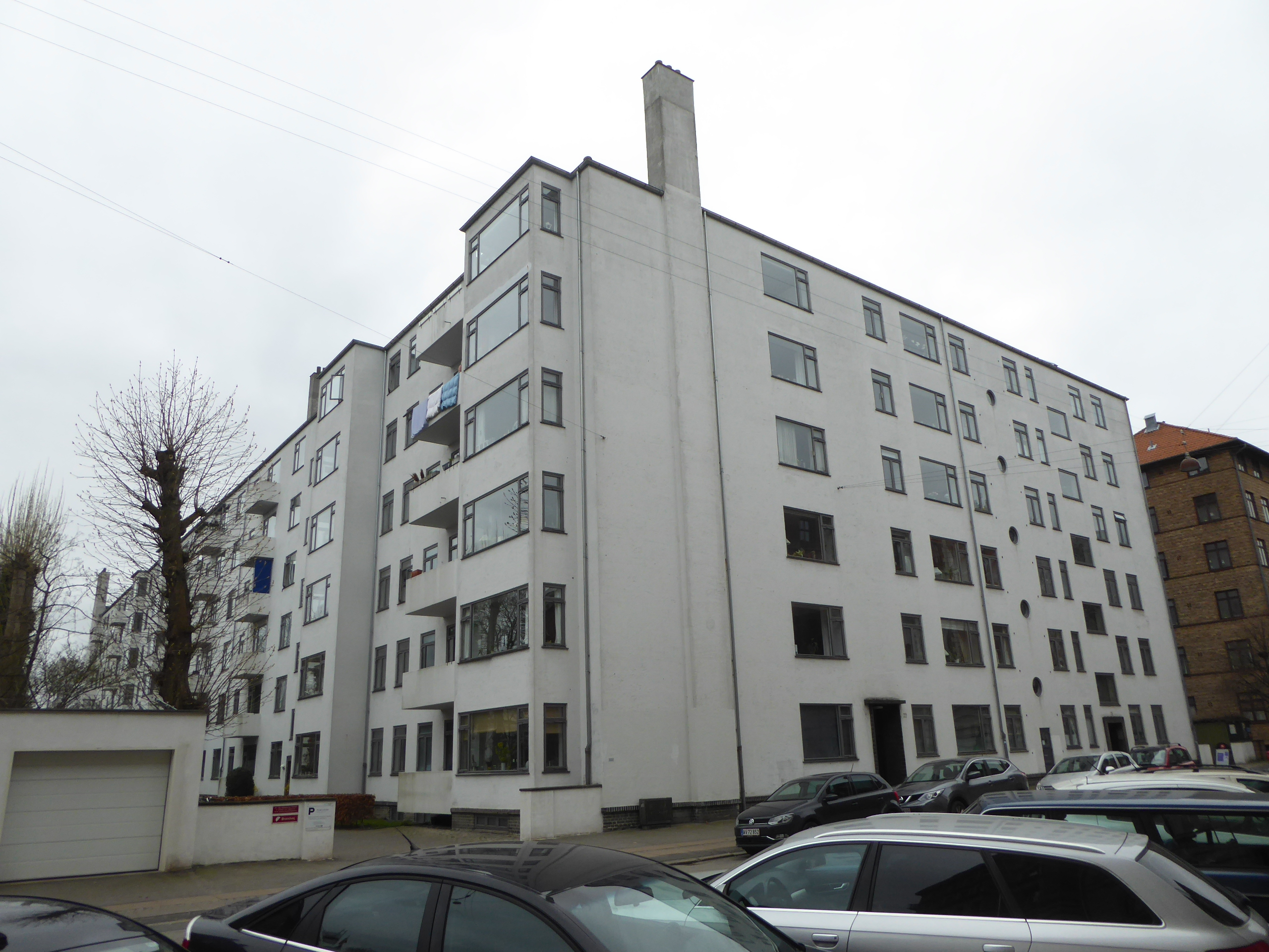 The apartment building Kastelsvænget at Kastelsvej in Østerbro in Copenhagen.